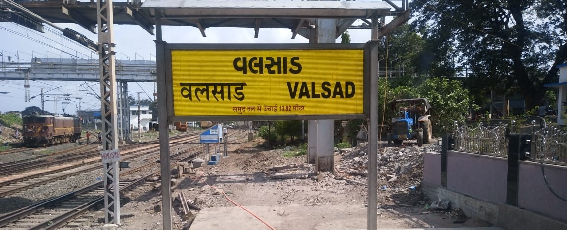 Valsad Railway Station